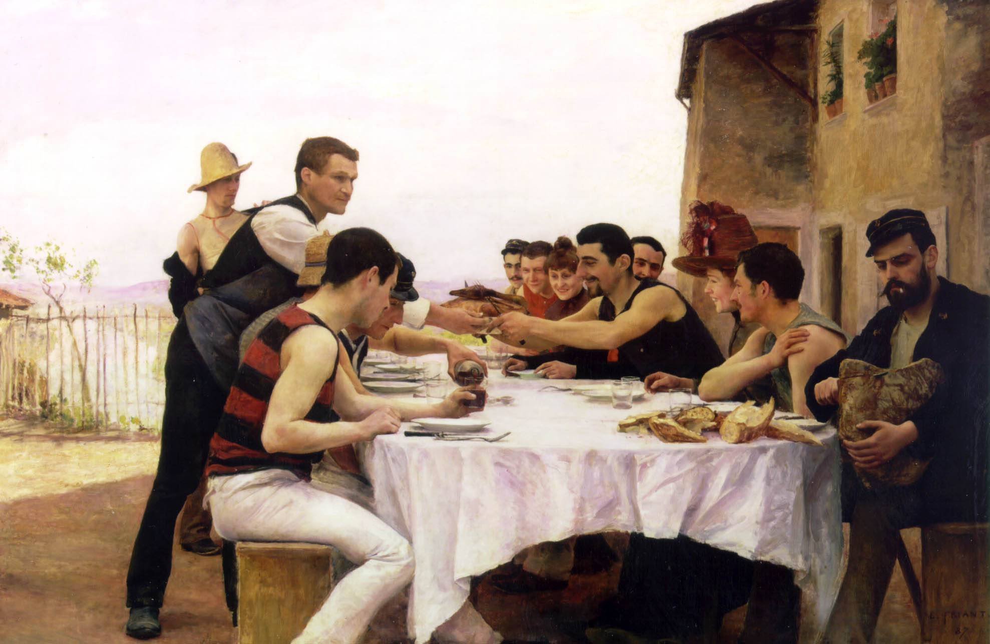 aka Reunion of the Meurthe Boating Party